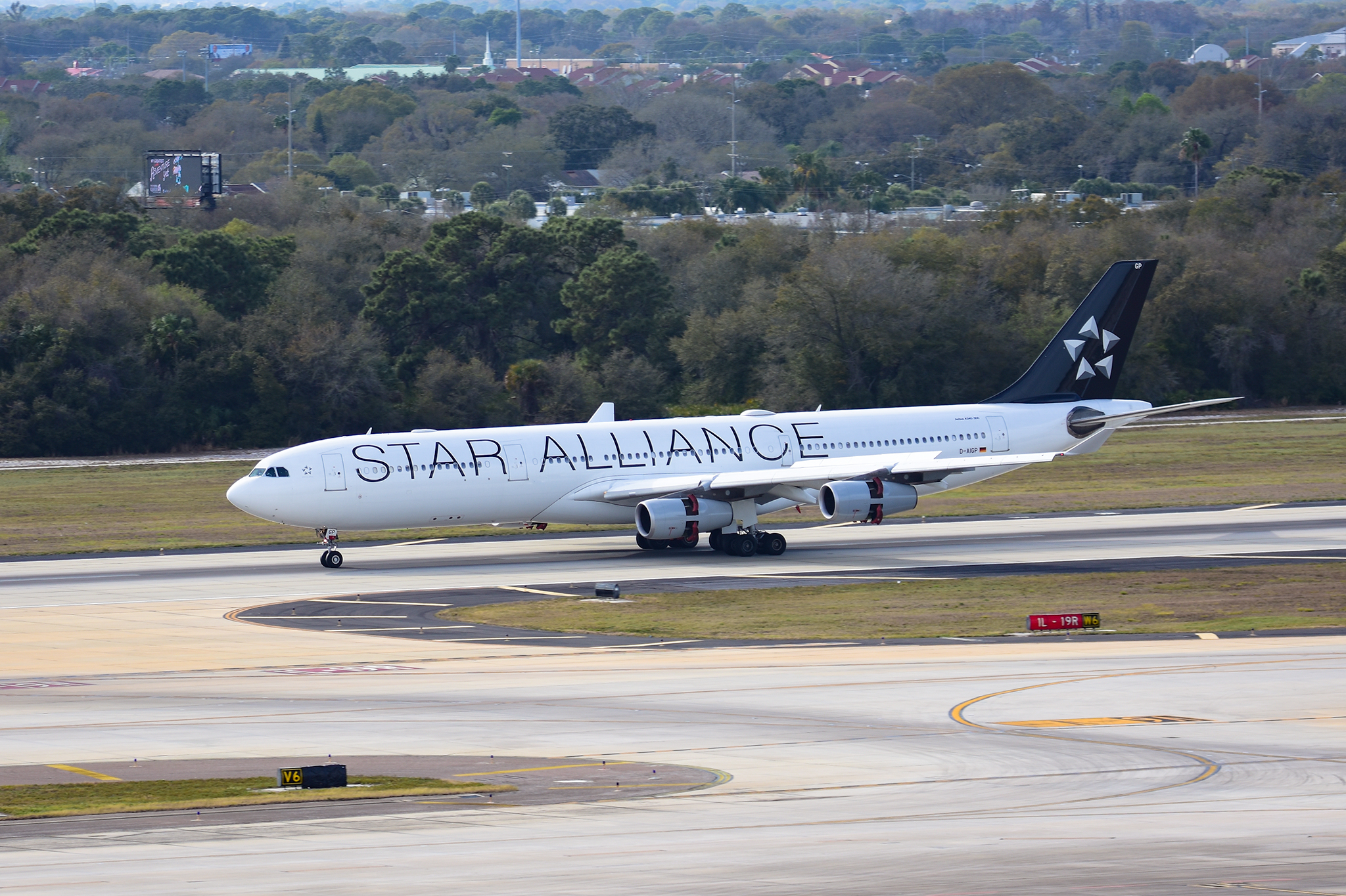 A Lufthansa operated by Lufthansa CityLine Airbus A340-300 at Tampa Airport, Florida, USA, having arrived from Frankfurt-FRA. Aircraft is registered D-AIGP.